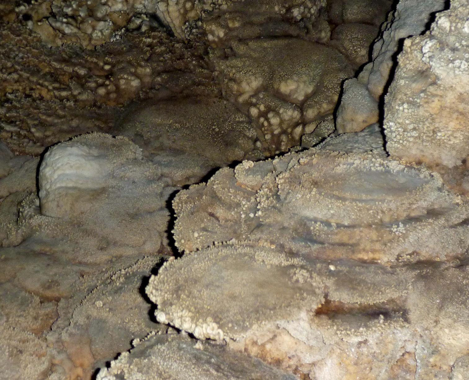 Tiên Sơn cave, type location of Vietbocap canhi scorpions.